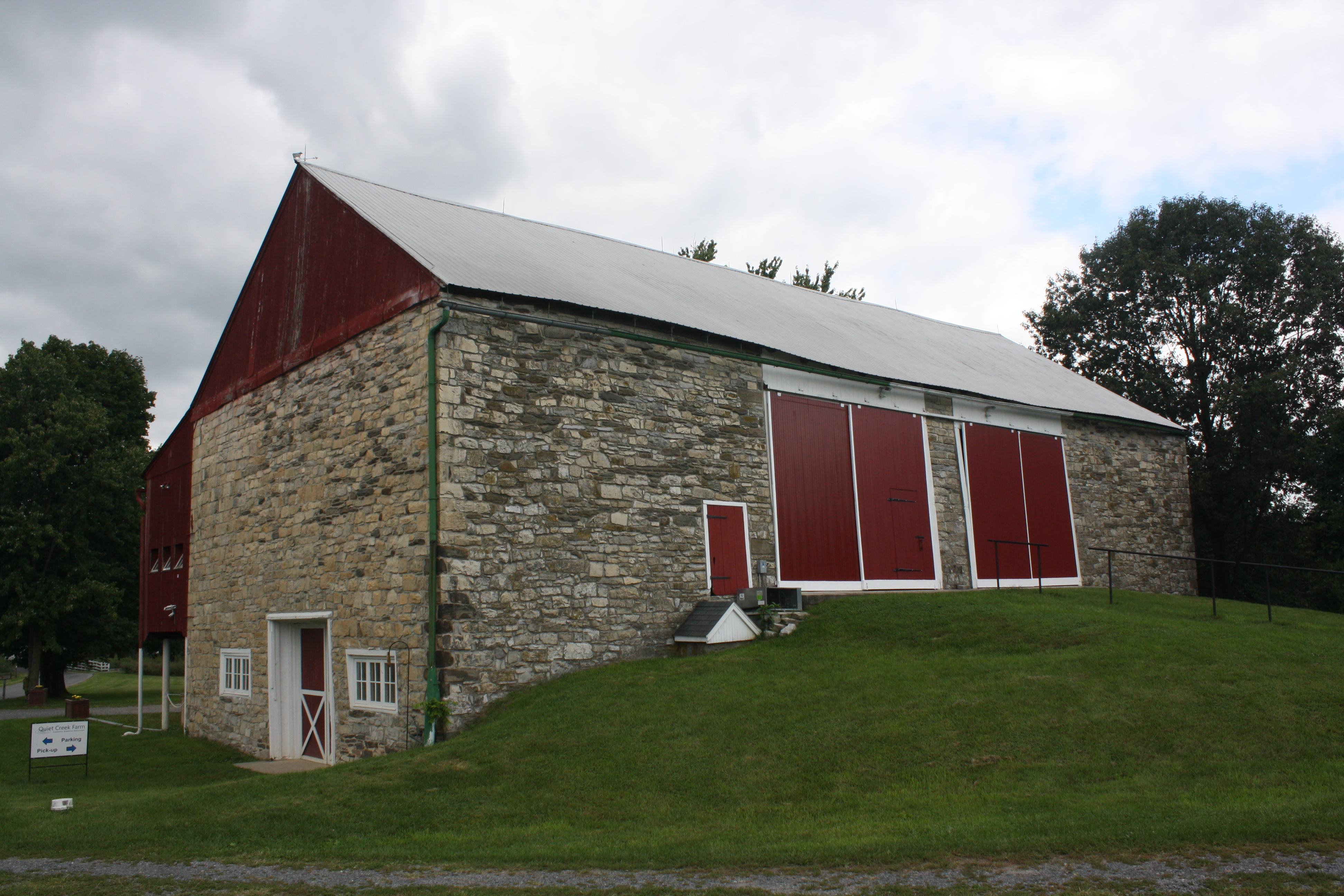 Siegfried's Dale Farm, also known as the Rodale Research Center or Rodale Institute, is a historic home and farm complex located in Maxatawny Township, Berks County, Pennsylvania. Henry and Catherina Siegfried Barn.